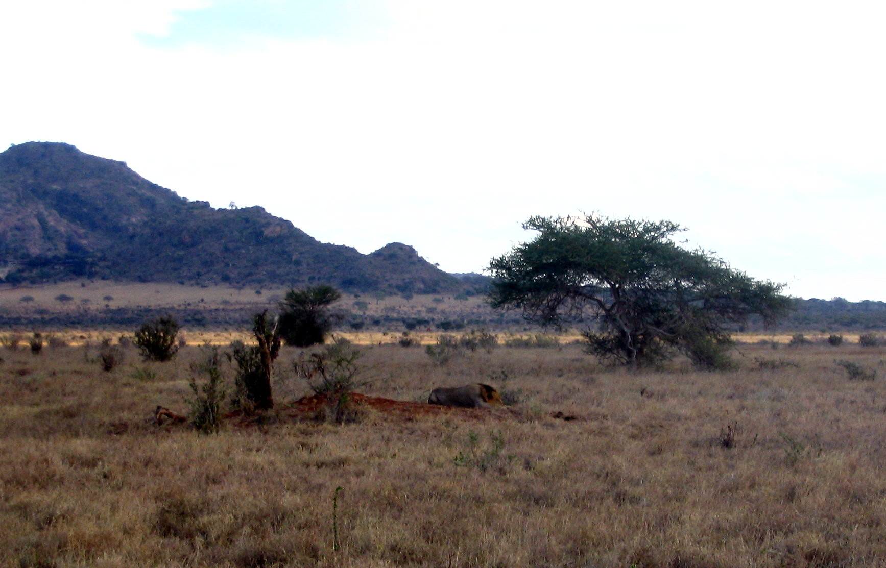 Male Panthera leo (Lion) resting in Tsavo East National Park, Kenya. The lion is hard to see as he is partially camouflaged.